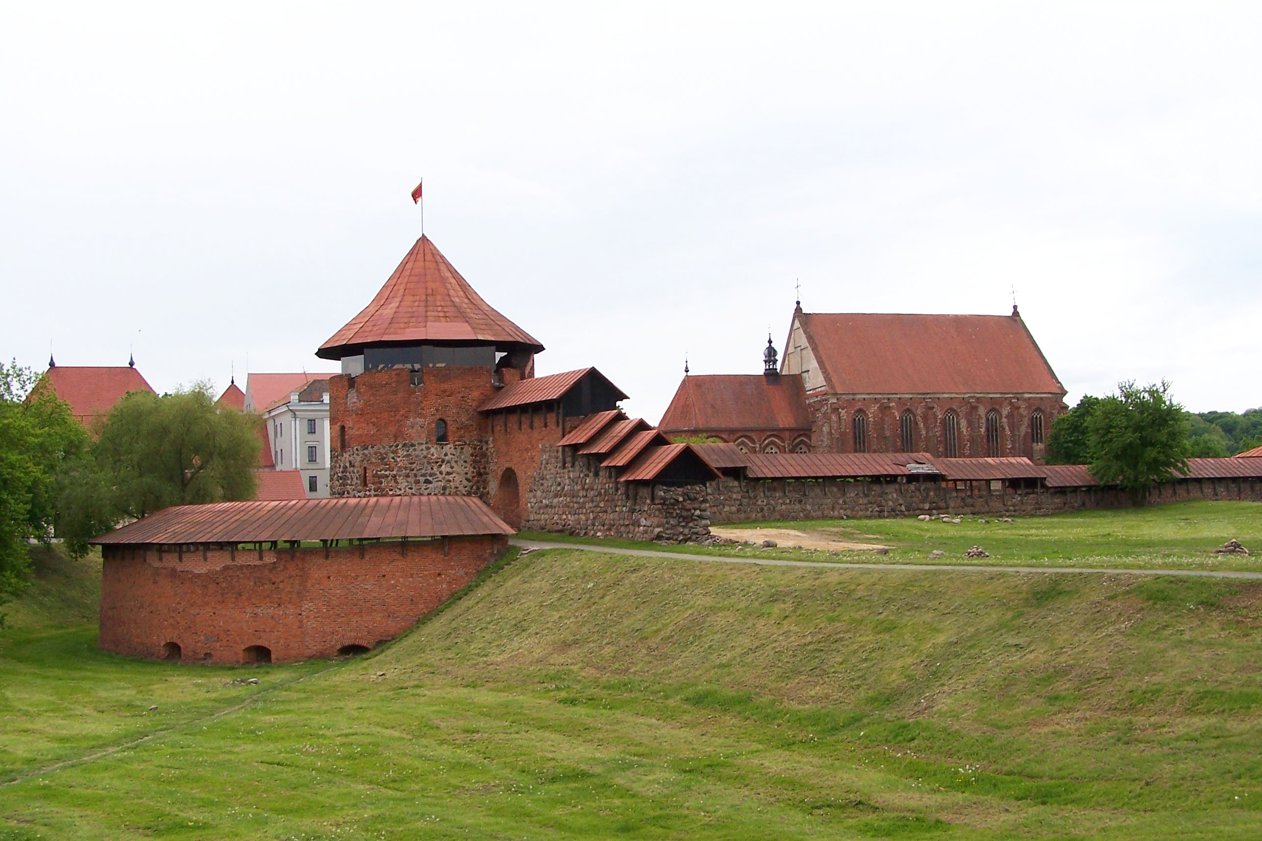 Castle in Kaunas (Lithuania).